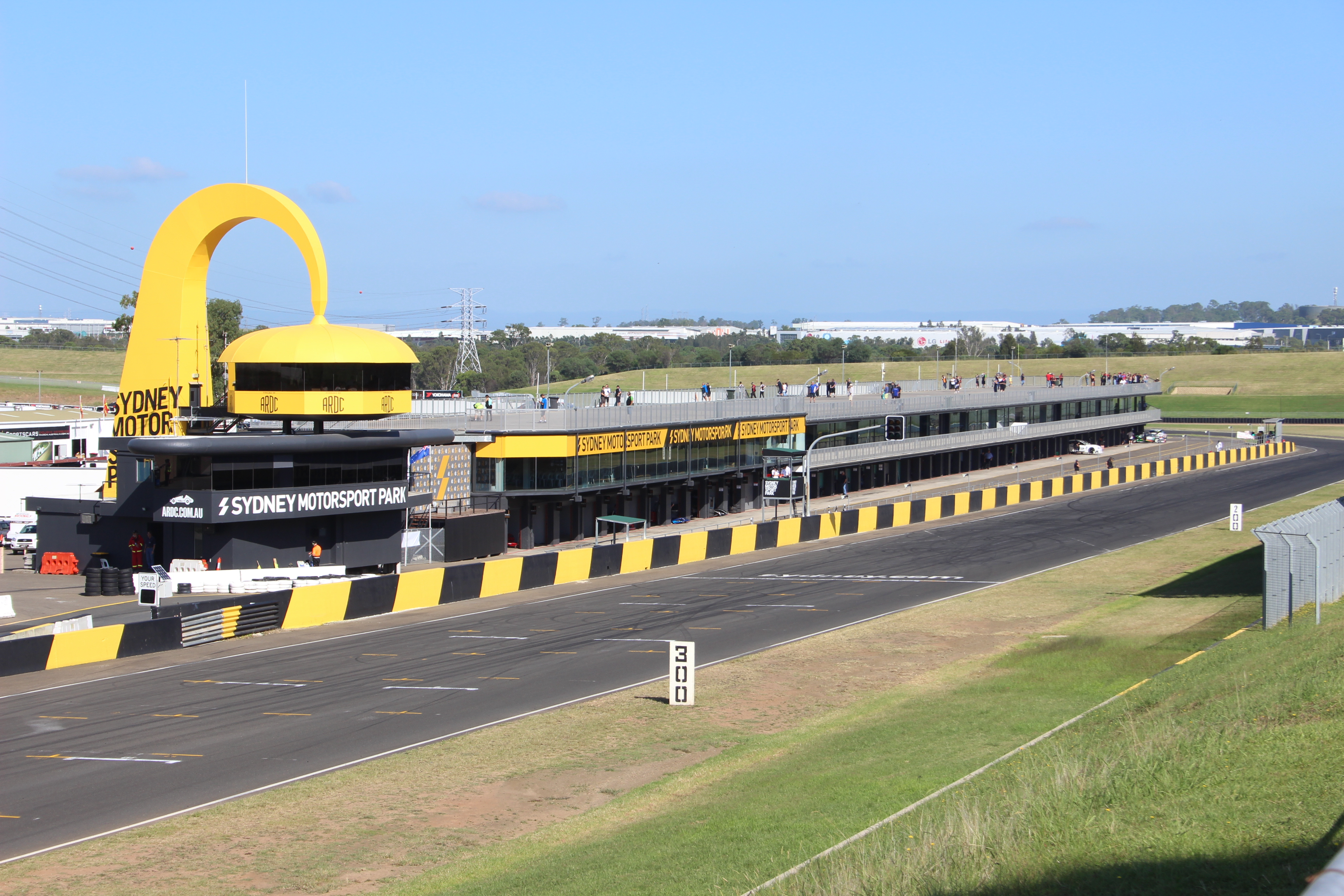 The race control building and the pit lane at Sydney Motorsport Park.